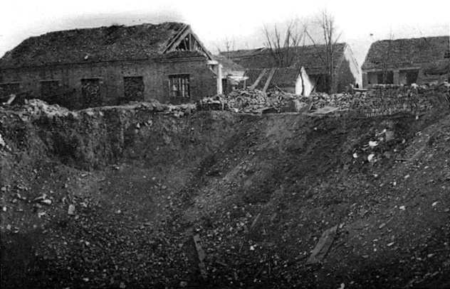 Image from La Chine à terre et en ballon.